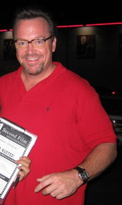 Tom Arnold with a flier for The 1 Second Film